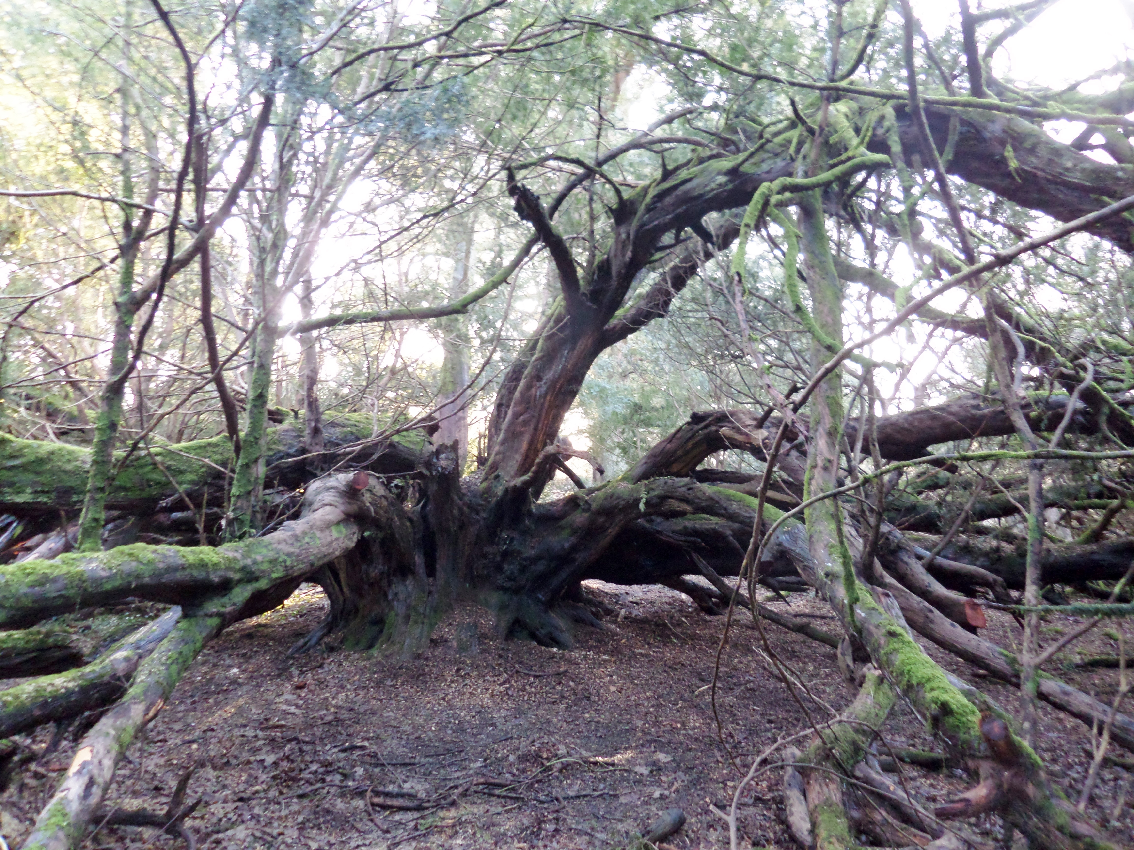 Craigends Yew grove, Houston, Renfrewshire - tree bole and fallen trunks of this 600 year old layering tree.